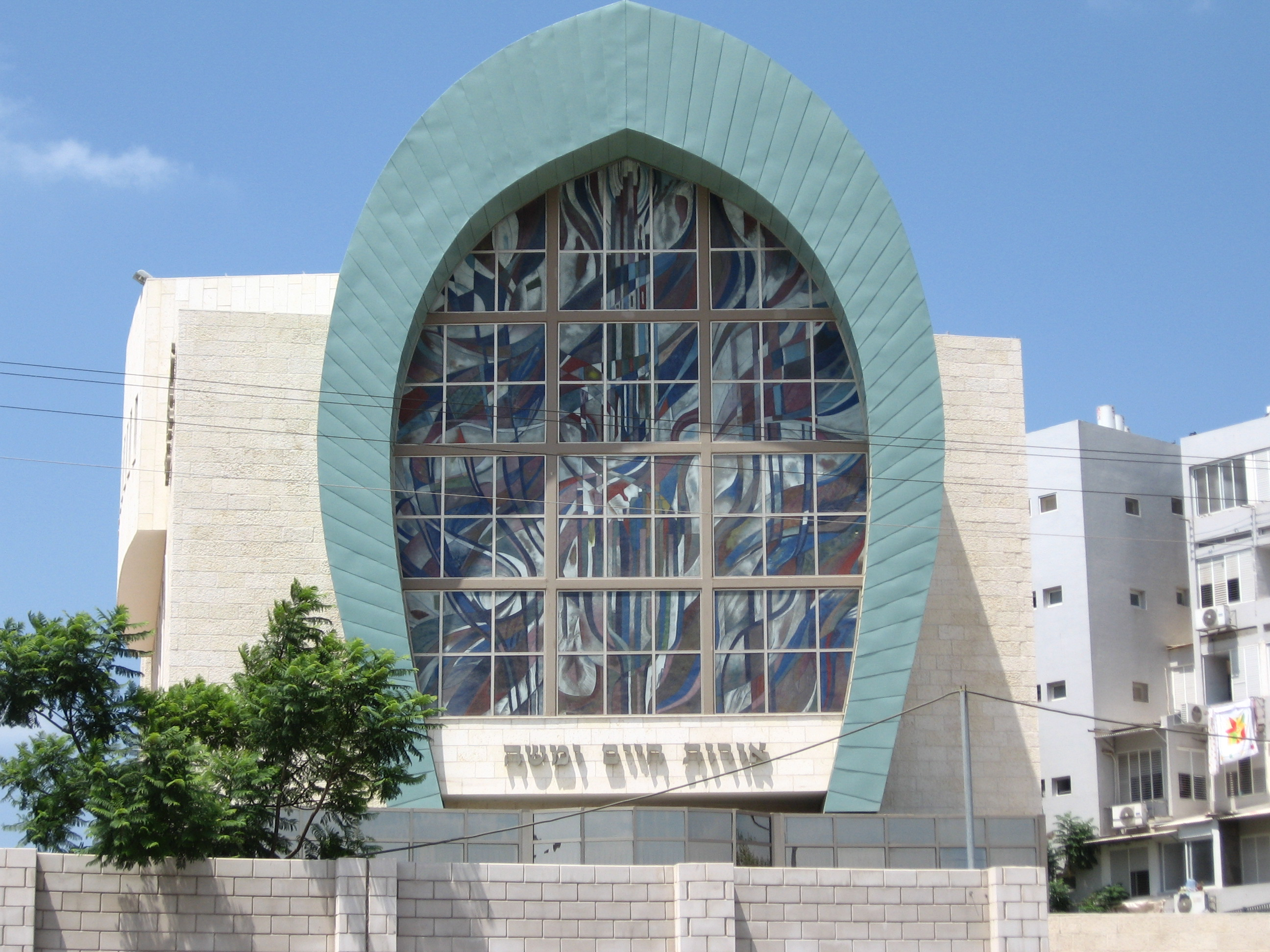 Orot Haim Kolel.